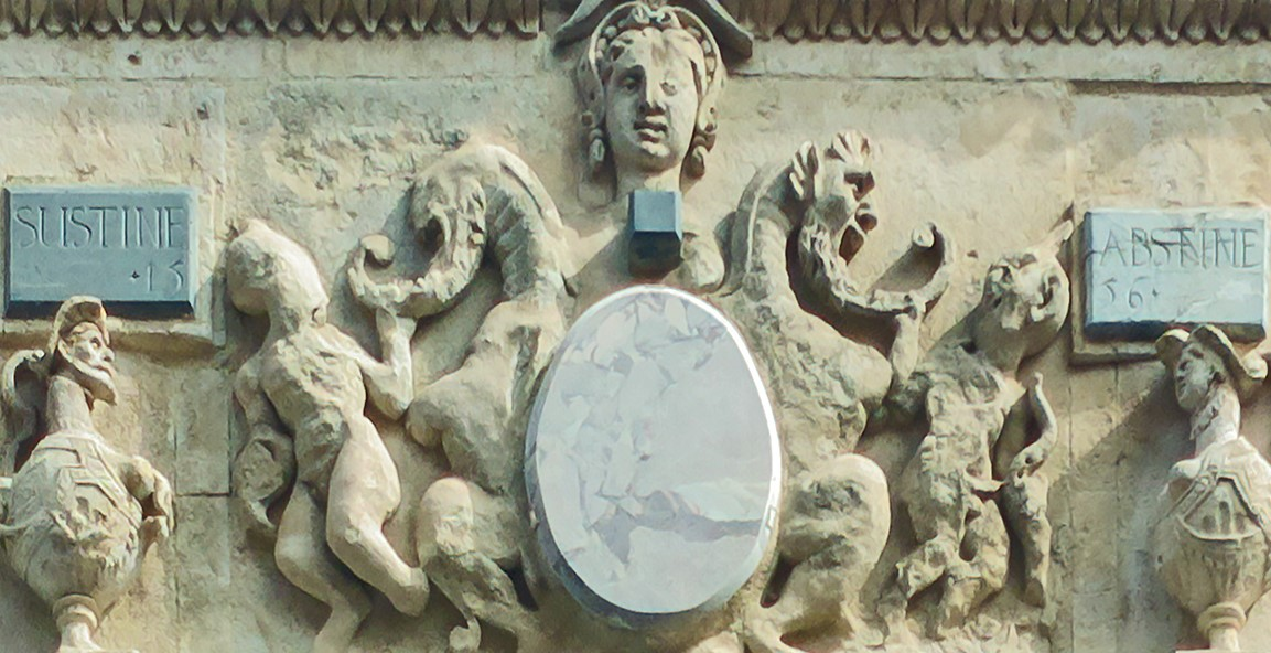 Bachelier - Hôtel Felzins